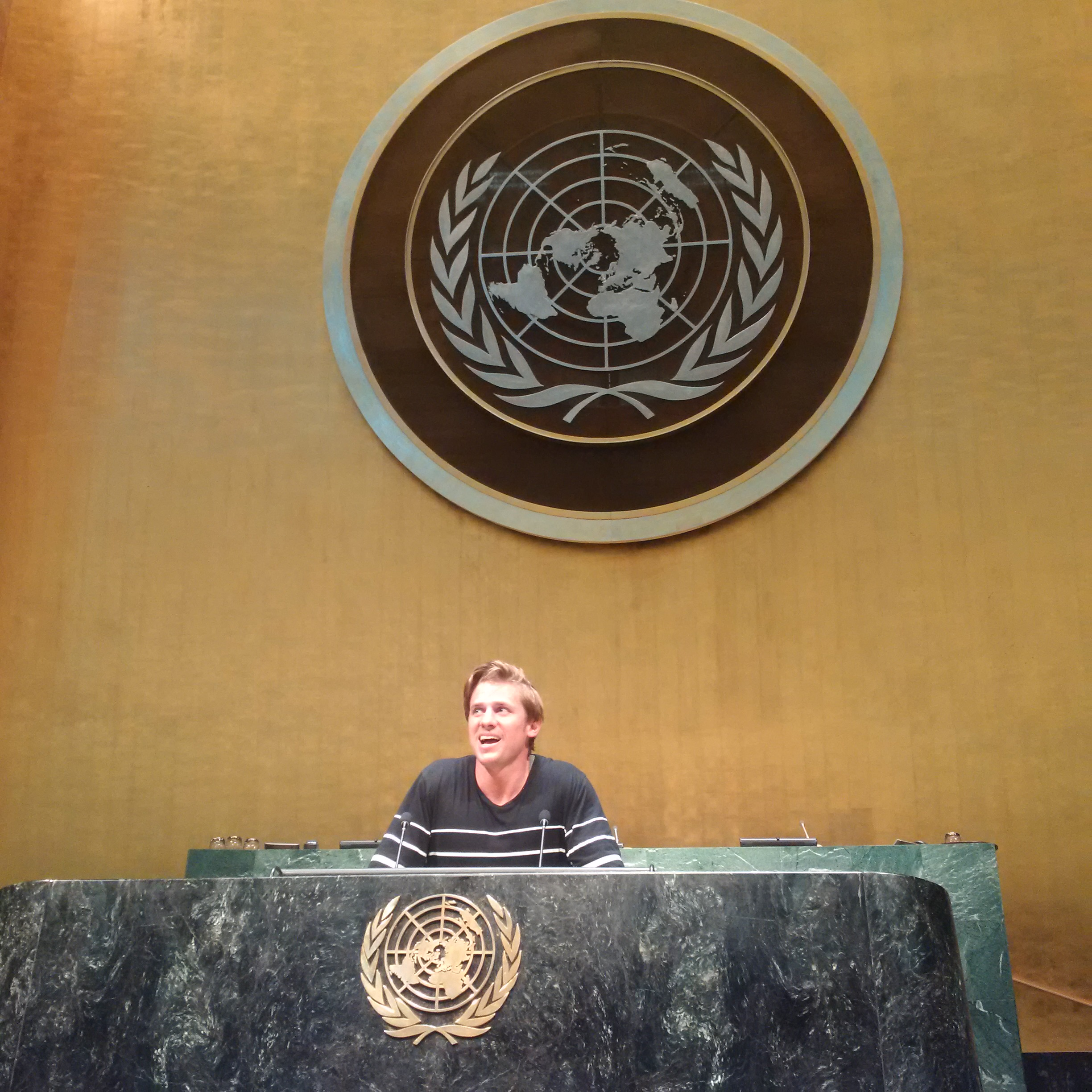 Justin Mayo tells how speeches are great, but action is what will change and empower humanity to move forward and rise above that which ties them down.